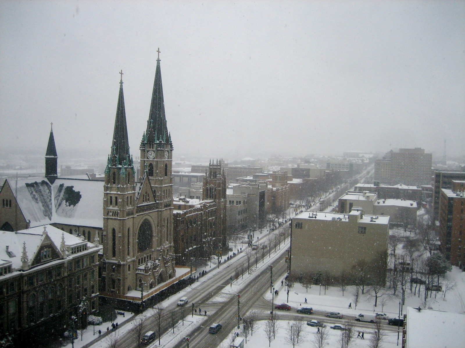 Looking Westward down Wisconsin Avenue in Milwaukee, WI. Photograph was taken from the 16th floor of Marquette University's M. Carpenter Tower